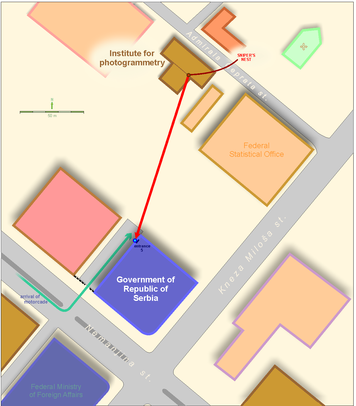 Map of assassination of Zoran Đinđić. Đinđić arrived at the government building in a motorcade and was shot by a sniper as he was trying to enter the building. His position is marked with a blue spot, while that of the assassins is marked with a red one.